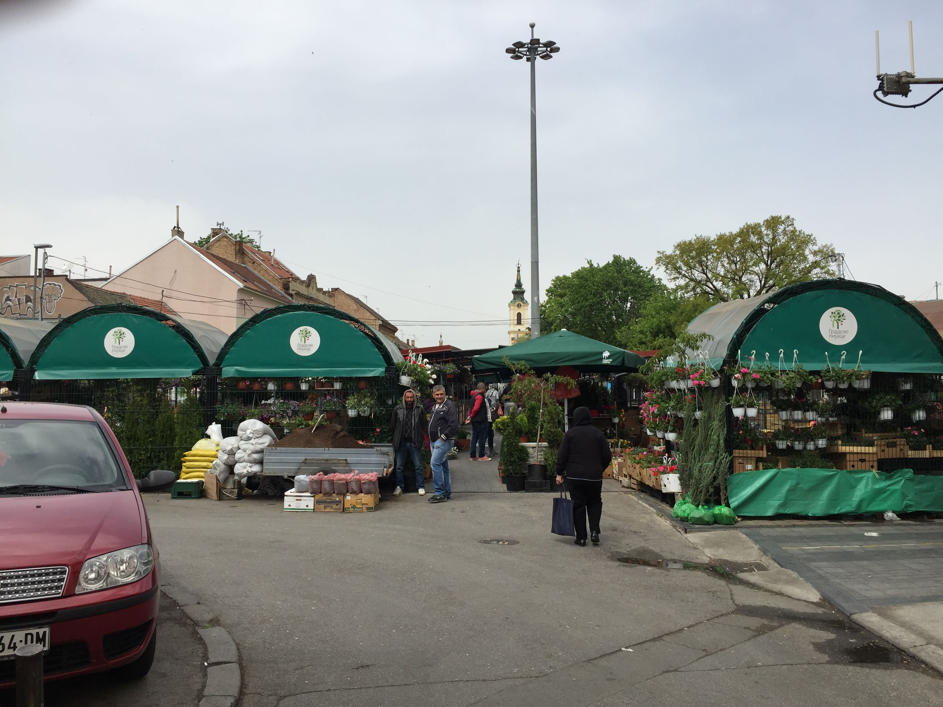 Zemun Marketplace. Serbia